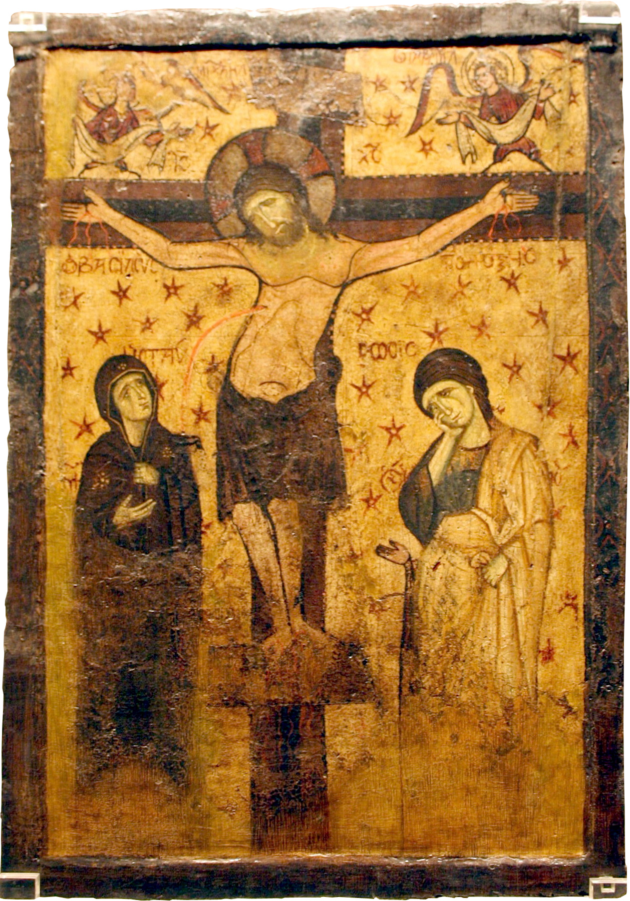 Icon of Crucifixion, dating from the 9th, 10th and 13th century. Exhibited in the Byzantine and Christian Museum in Athens. Picture by Giovanni Dall'Orto, November 12, 2009. Double-sided icon with the Crucifixion and the Virgin Hodegetria The icon, which is the oldest in the museum, has three different layers of painting on the front. From the earliest, dating from the 9th c., is preserved the Cross, with the body of Christ, and the two angels. Traces can also be made out of John’s hand, in prayer, and a vessel at the Virgin’s left shoulder which was held by an angel symbolising the Church. The starry background and inscriptions were added in the 10th c. The Virgin, John and the head of Christ belong to the 13th-century phase of painting. X-ray examination of the icon has shown that the 9th-century Christ was painted with his eyes open, in other words alive on the cross. This was customary in earlier depictions of the Crucifixion in Byzantine art (6th and 7th c.), in order to emphasize the divine nature of Christ and his victory over death. But features dating to the 9th century refer to Christ's human nature, like the blood and the water that flow from Christ's side and are collected in a chalice (traces of which have been preserved on a level with the Virgin's shoulder). His human nature and the sacrifice the incarnate Christ made were stressed to a greater extent in the 13th century when the face of Christ was painted with closed eyes, as had become customary by then in Byzantine art. On the reverse of the icon there was probably initially an image of the Virgin, which was over-painted in the 16th century with a Virgin and Child in the iconographic type of the Hodegetria. Measurement: 87 x 63 cm. Exhibit Number: ΒΧΜ 00995